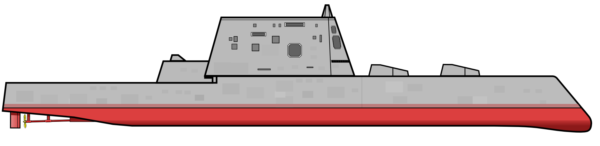 Zumwalt class destroyer (side view)